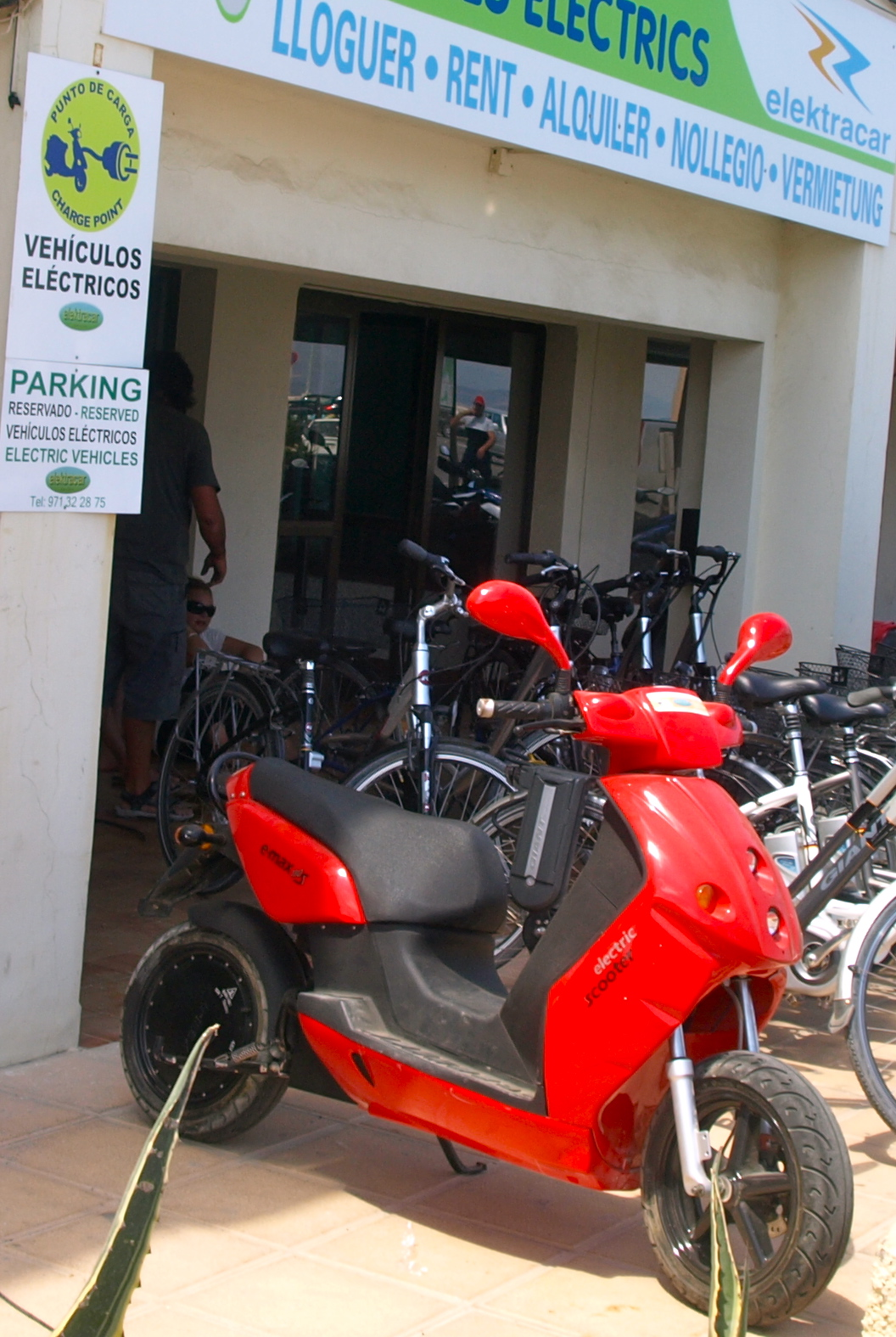 E-bike of the year contest in Zolder/Belgium May 2011 An IO Manhattan in front of an Vectric Li+